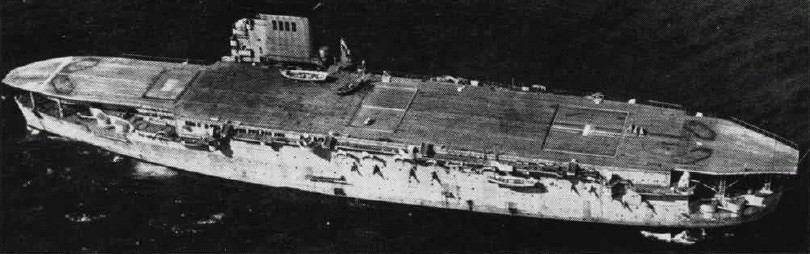 The French aircraft carrier Béarn. She was in service from 1927 to 1940. From 1944 to 1948 she was used to transport aircraft, then she became a stationary hulk at Toulon (France), until being scrapped in 1967.